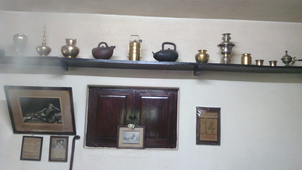 Ramanashramam , Tiruvannamalai, TN